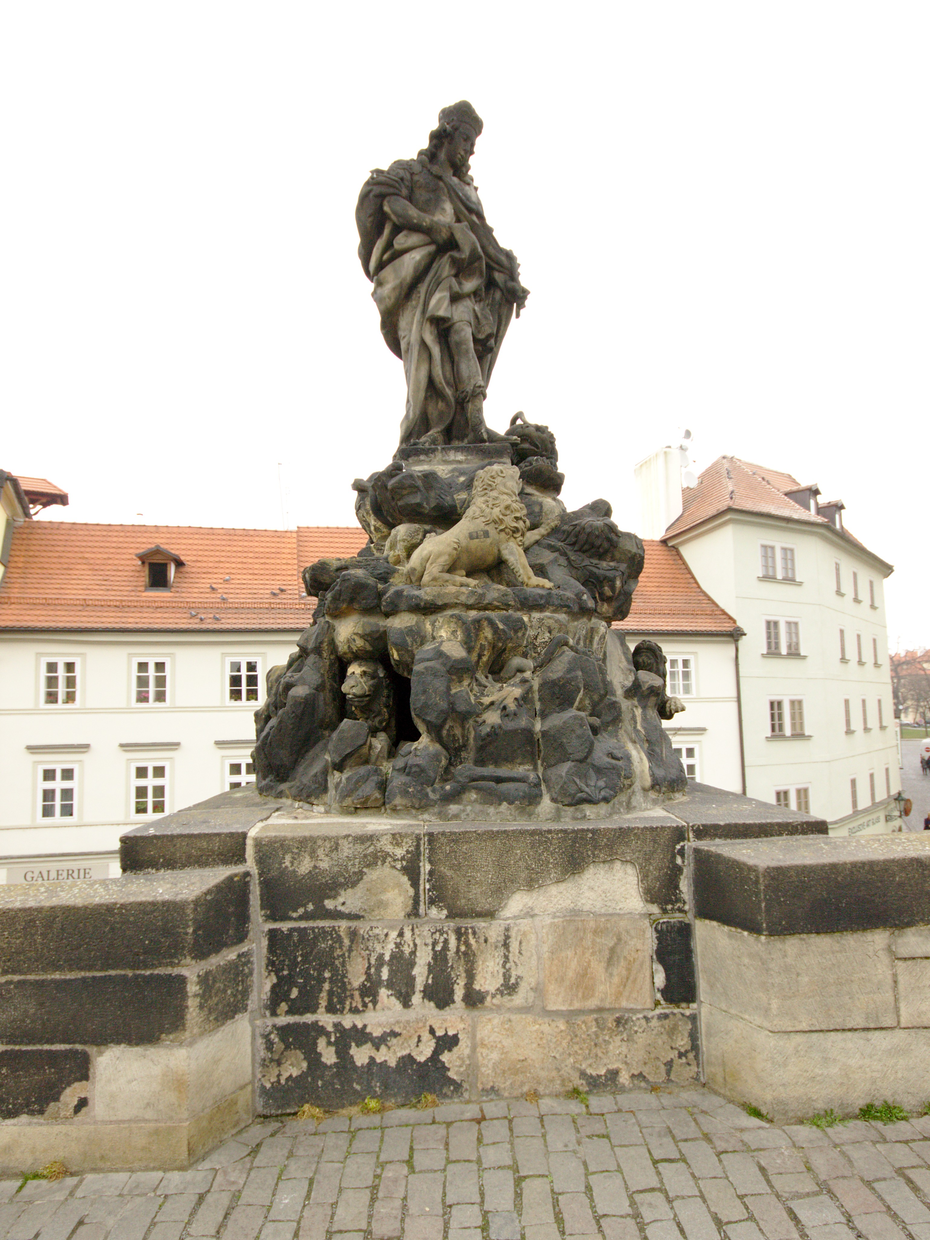 Sculpture of Saint Vitus on Charles Bridge